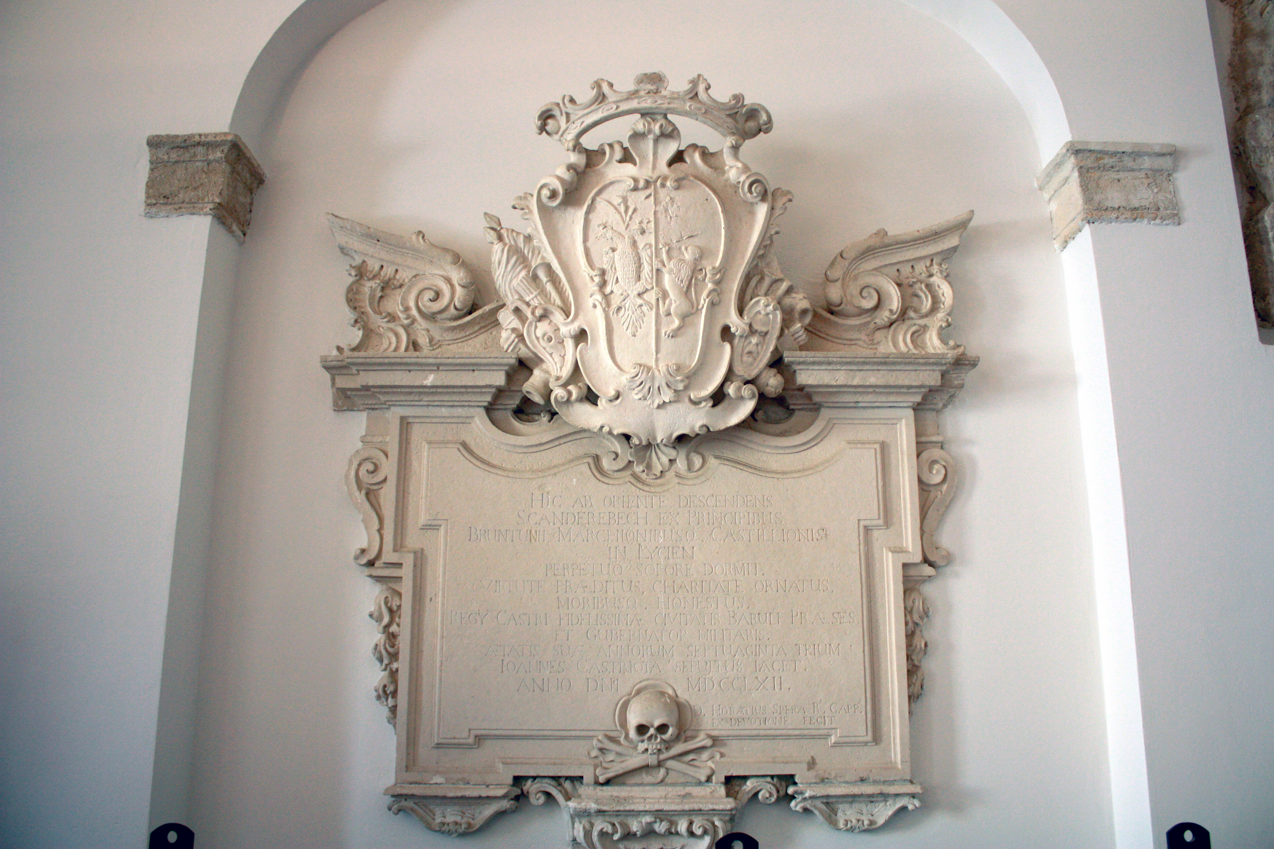 Castle of Barletta, in the former chapel - tombstone of Giovanni Castriota, descendant of Scanderbeg (*1702), castellan of Barletta from 1750 to 1762